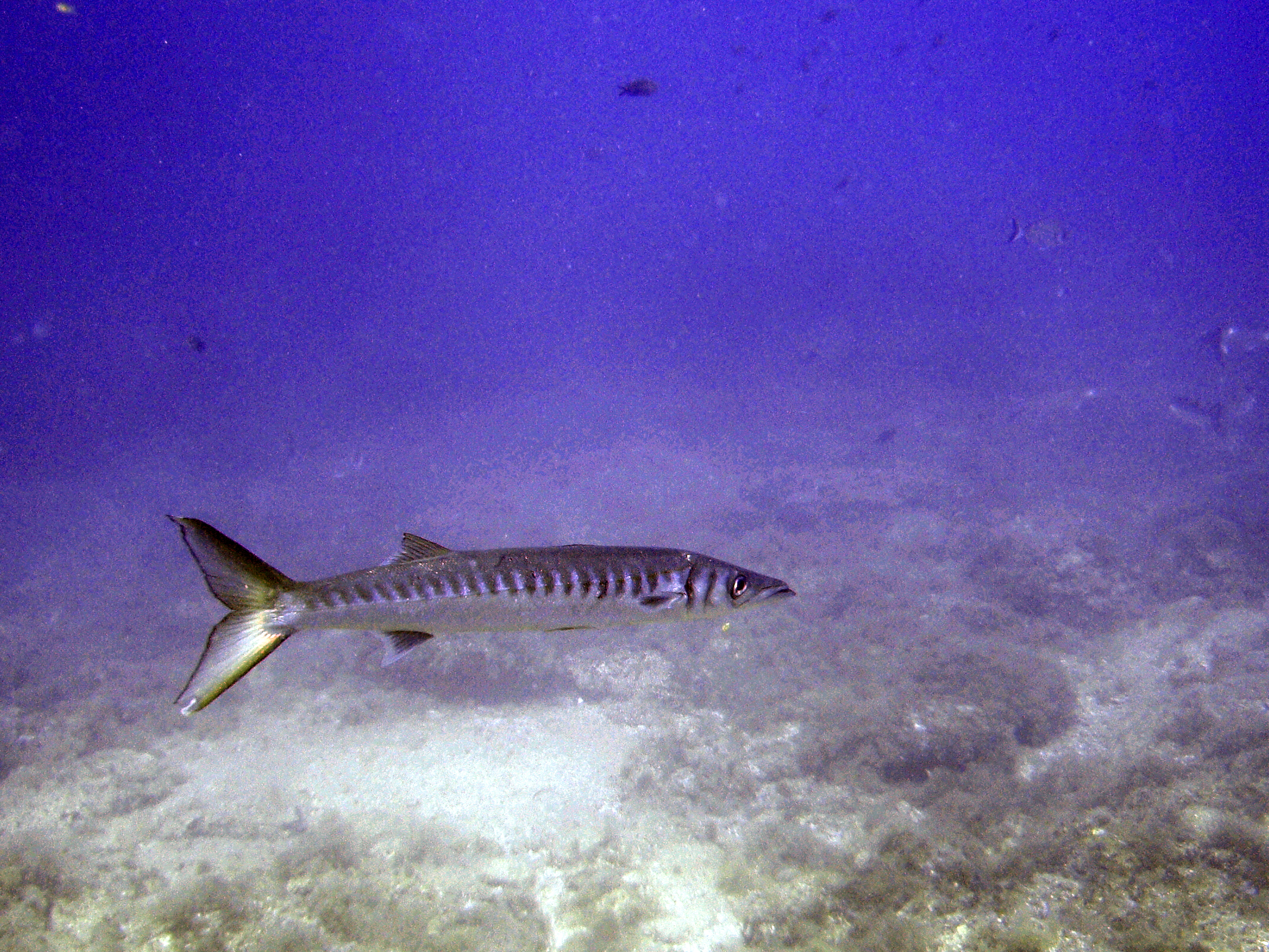 Sphyraena viridensis. Mediterranean barracuda.